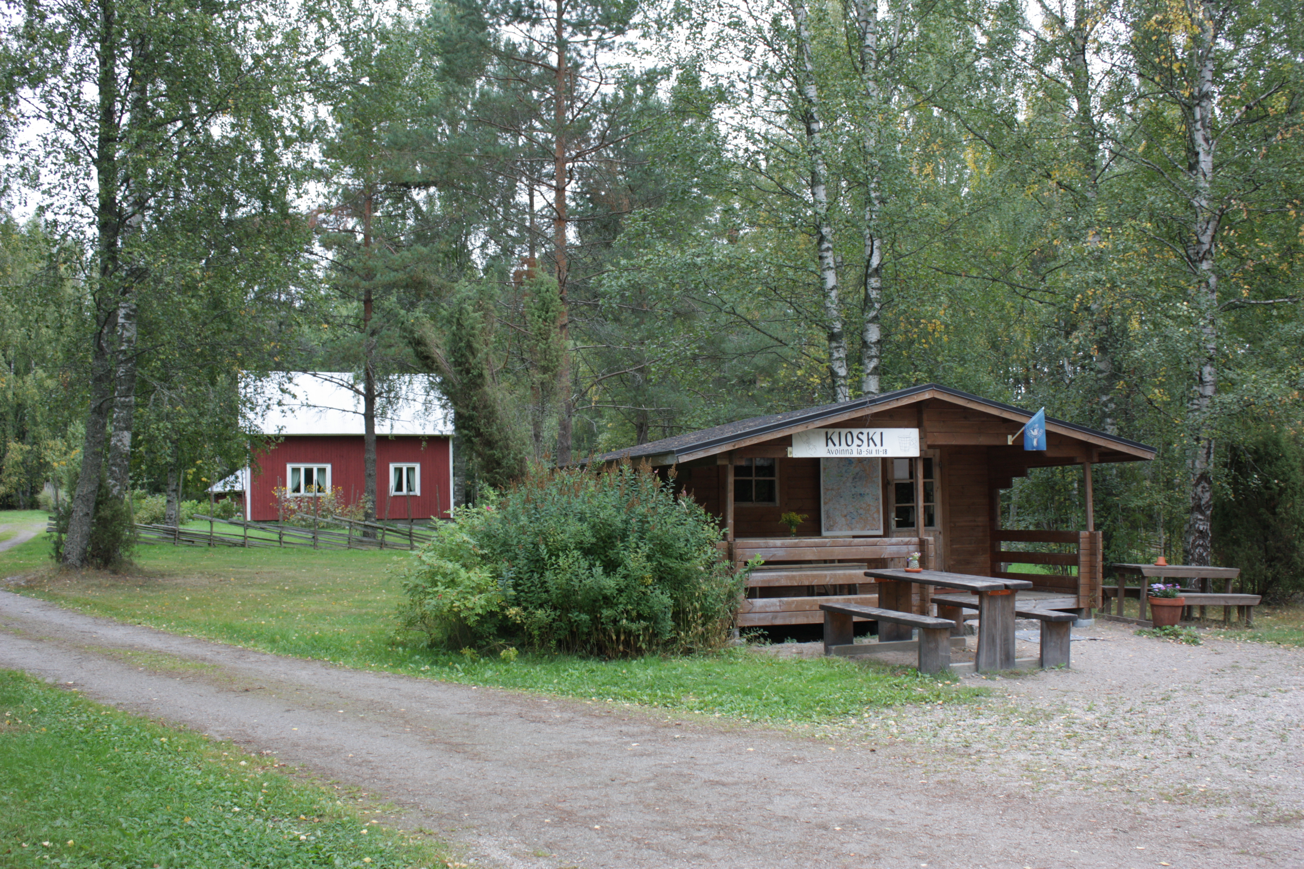 Rantapiha recreational area by the lake Savojärvi near Kurjenrahka National Park in Nousiainen, Finland Pictured are the kiosk in front and the red main building in the back